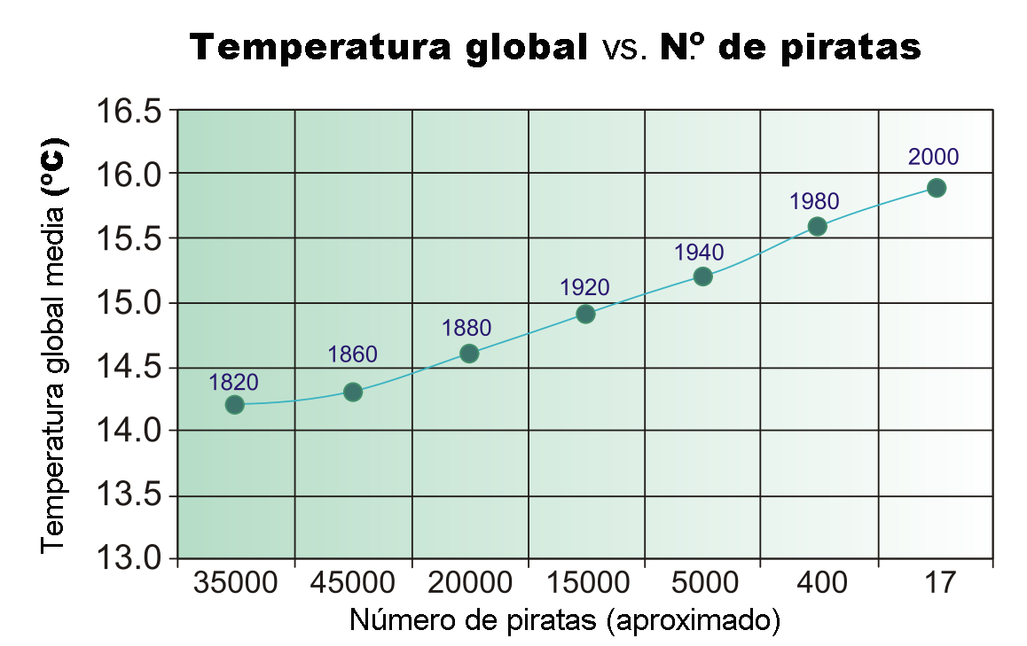 Diagram illustrating the influence of pirates decreasing on global warming. (See Flying Spaghetti Monster.)